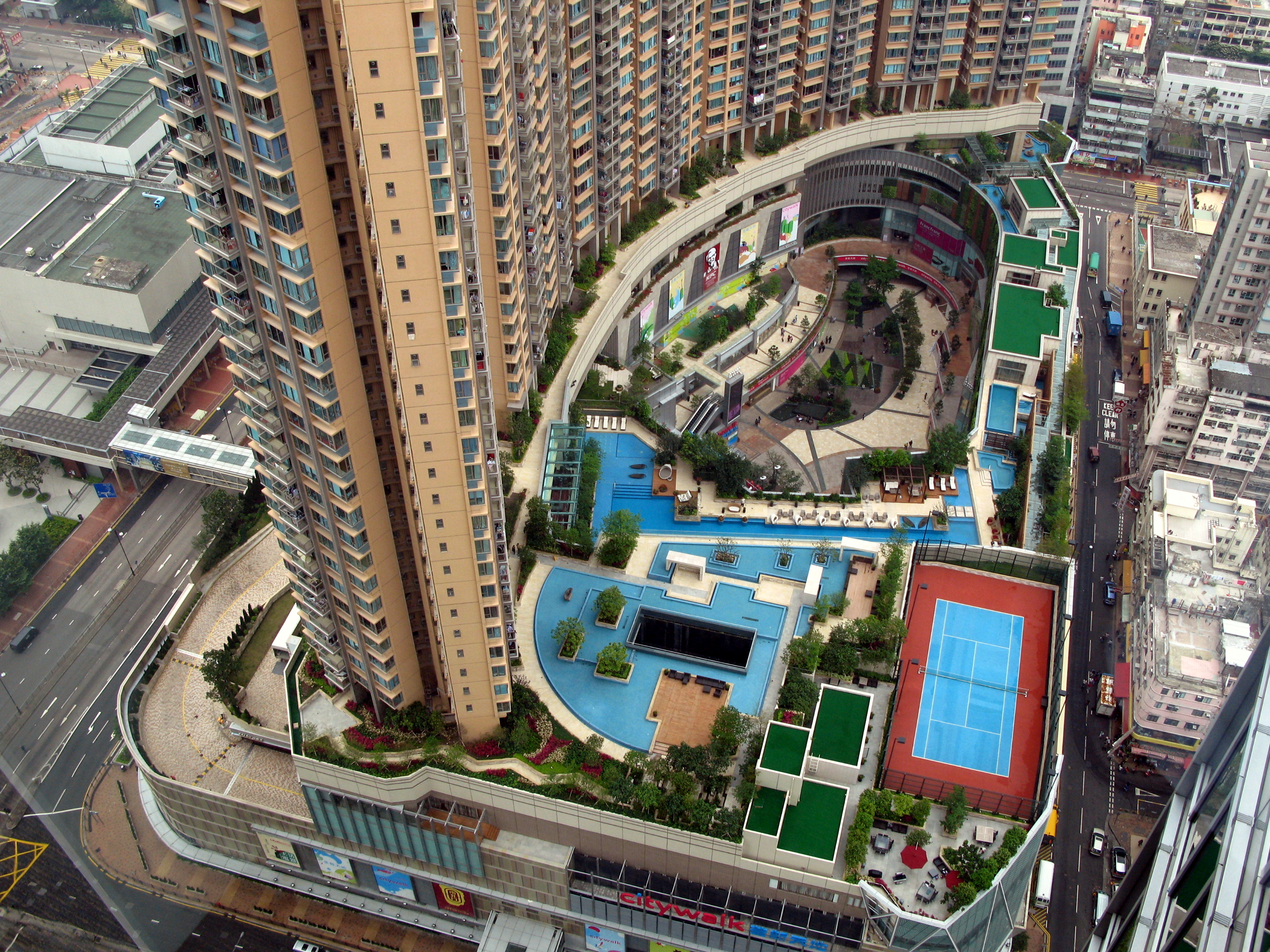 HK Vision City Phase1 Garden